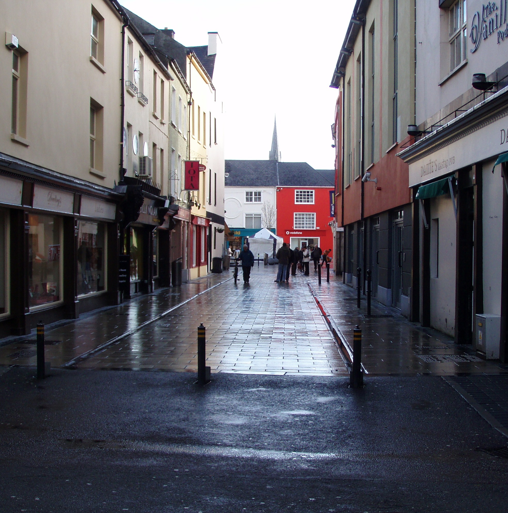 Dominick Street, Tralee, Co Kerry, Ireland, leads into the Square. The spire of St John's Church is in the distance.